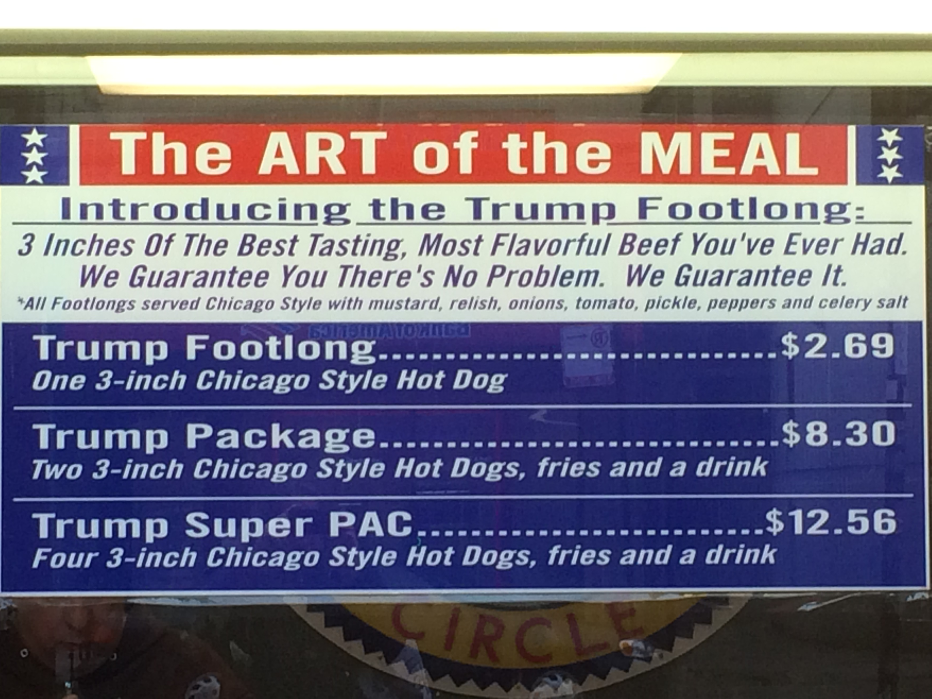 Now serving trump footlongs - Weiners Circle March 2016